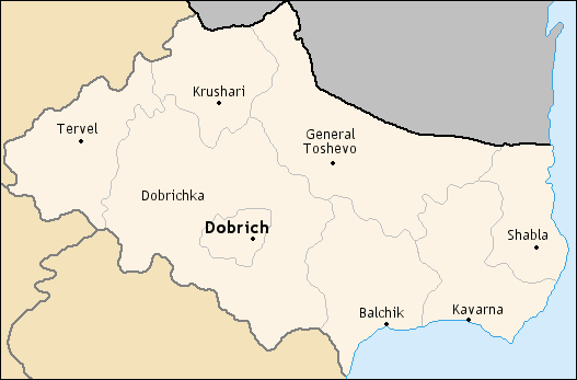 Map of Dobrich Province